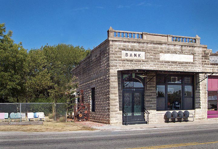 Front view of the original bank of Forreston Texas. Currently Forreston Antiques.